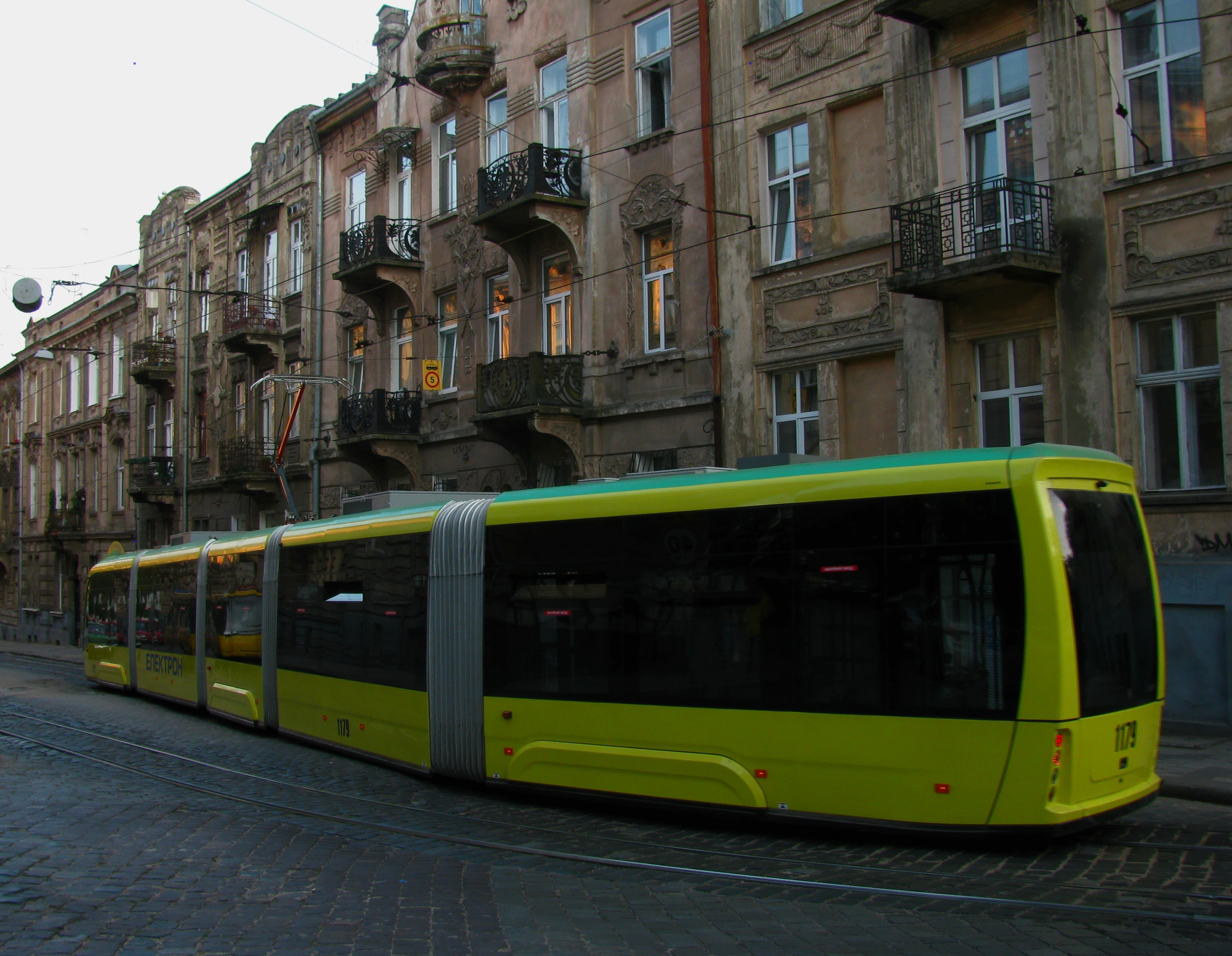 Tram Electron T5L64 on Nechuja-Levytskoho Street in Lviv, Ukraine